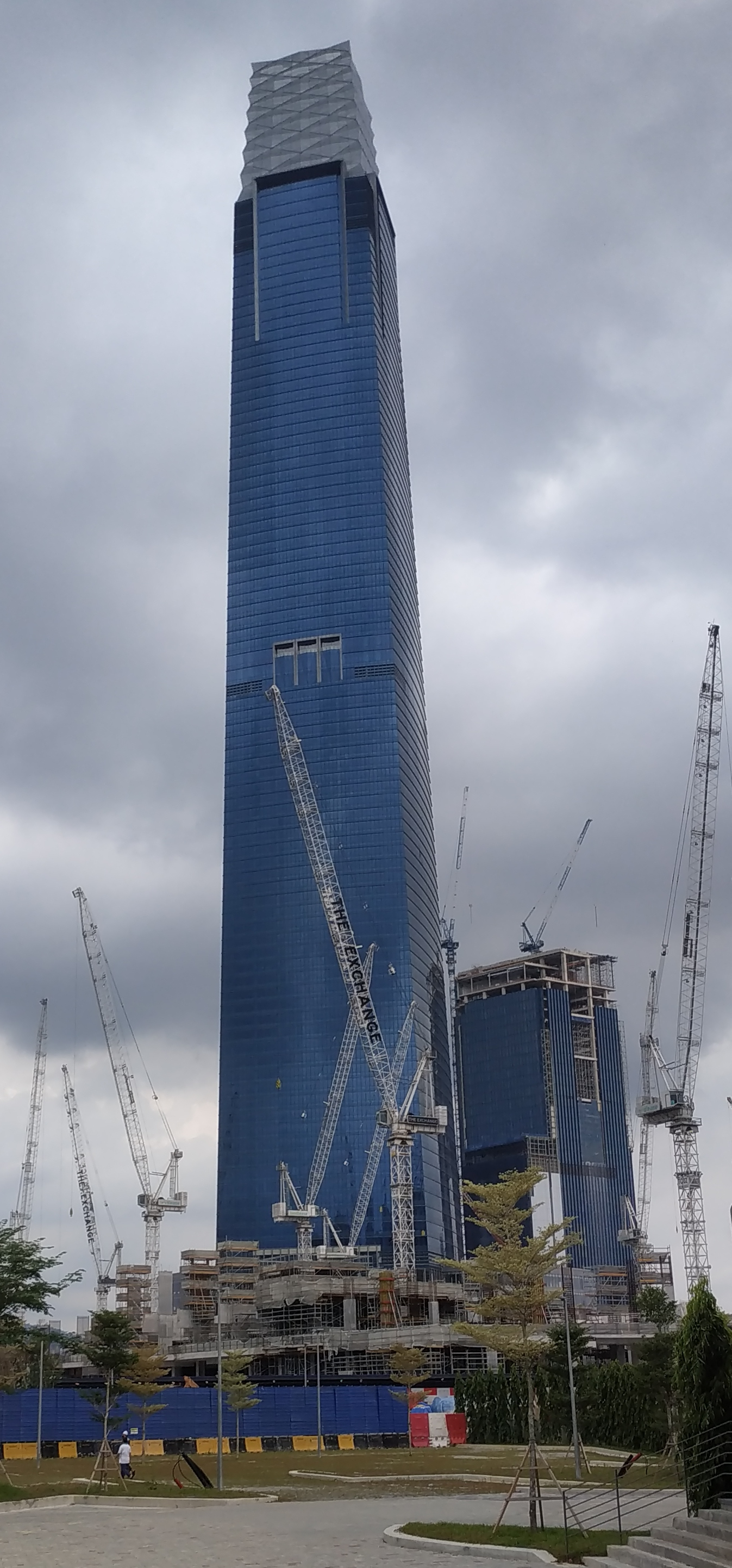 Exchange 106, Kuala Lumpur in May 2020